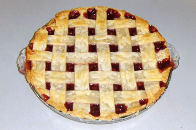 A cherry pie with a lattice top.